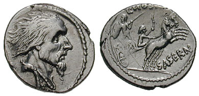 Silver Roman denarius, issued by the moneyer Lucius Hostilius Saserna at about 48 BC: obverse: noble Gaul with fibula and paludamentum. For someone, this coin might have depicted the real face of Vercingetorix, at the time captive in the Tullianum. For someone else, the coin simply show a Gaulish. Reverse: naked auriga of a biga; on the biga, a warrior with helm and shield